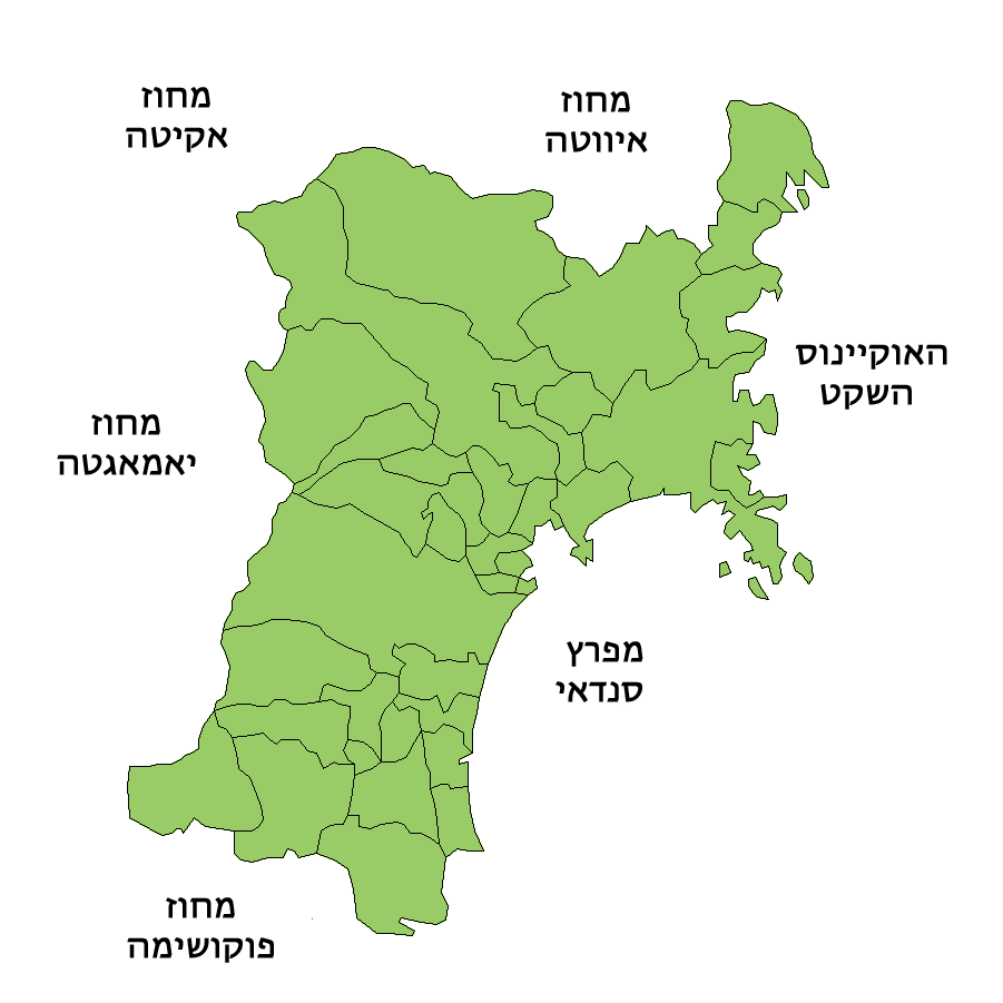 Based on File:MiyagiMapCurrent.png